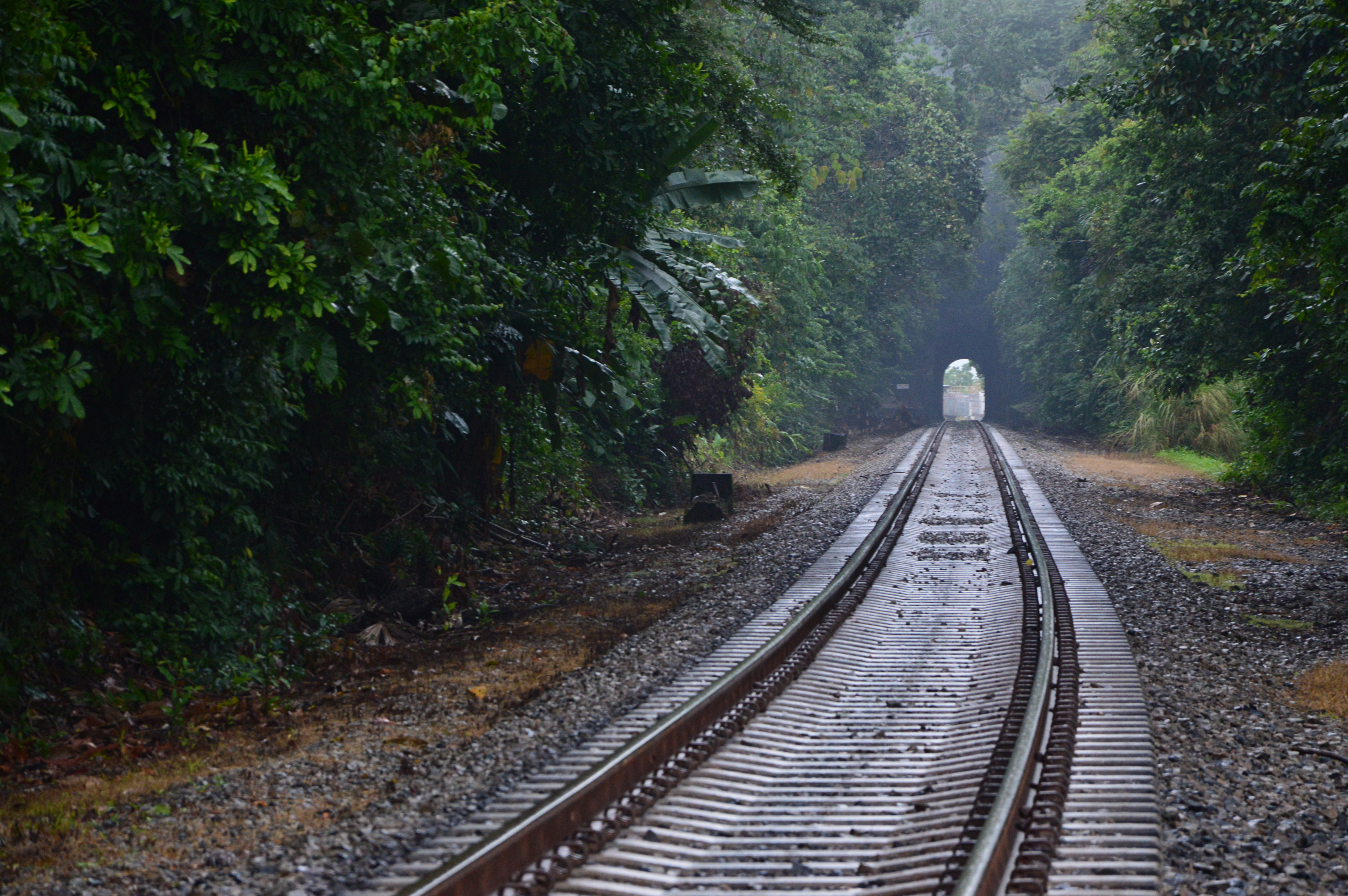 Panama Canal Railway right-of-way, rebuilt in 2001 with concrete ties and welded rail.